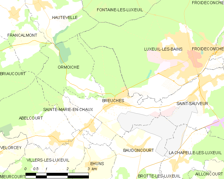 Map of French municipality